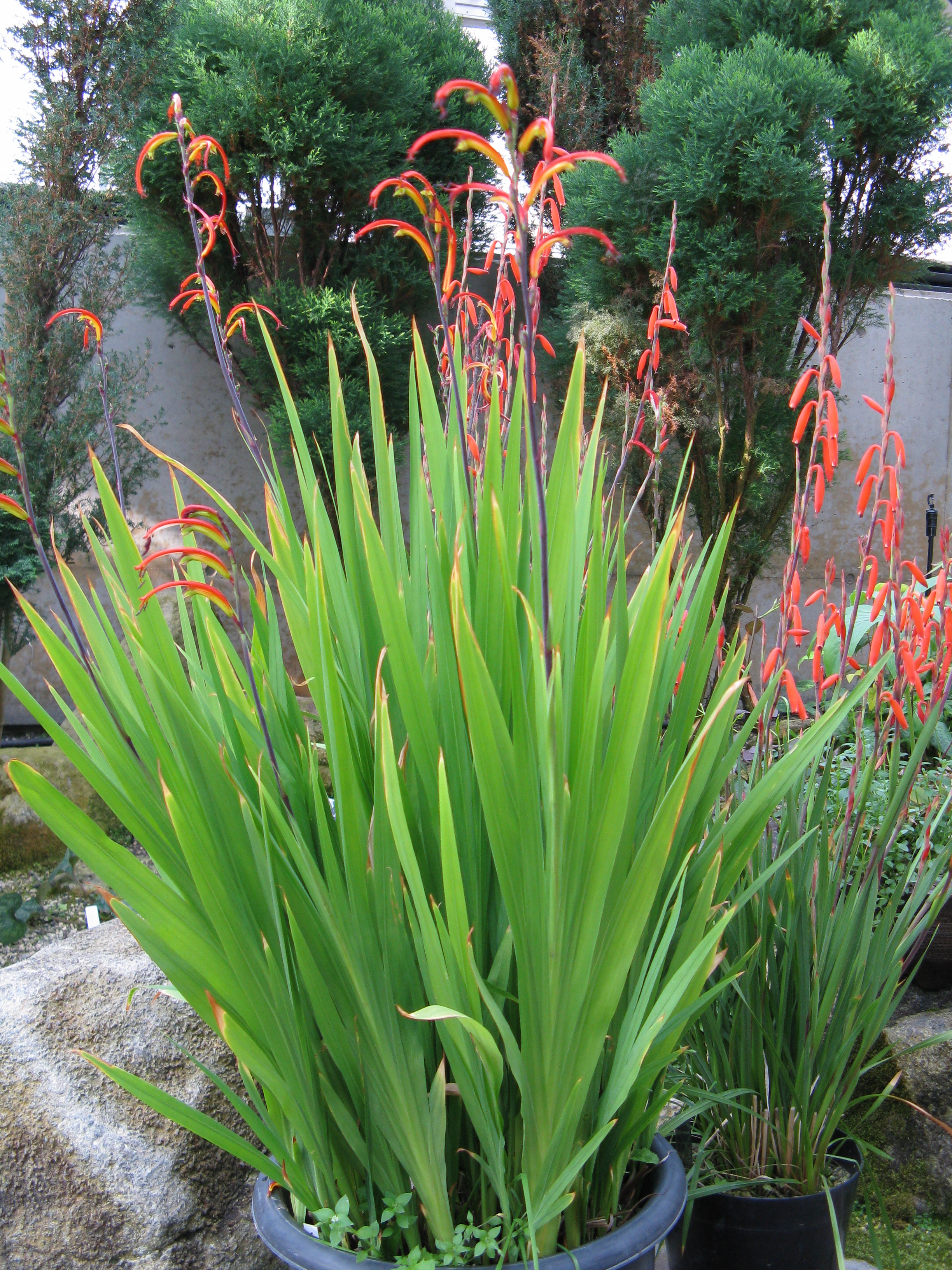 Scientific name Chasmanthe bicolor Place:Osaka Prefectural Flower Garden,Osaka,Japan